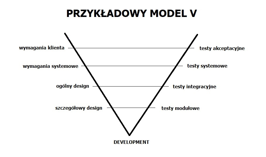 Przykład Modelu V